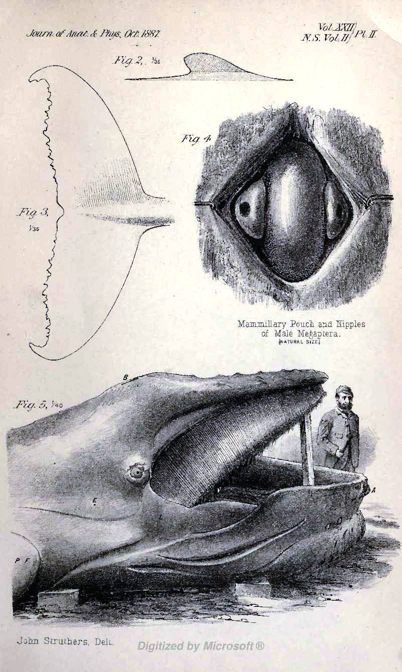 The Tay Whale, Megaptera Longimana